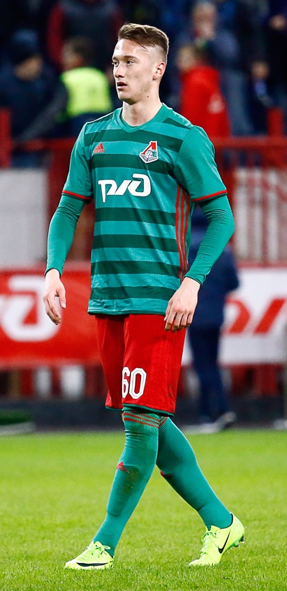 Anton Miranchuk with FC Lokomotiv Moscow in a game against FC Rostov.